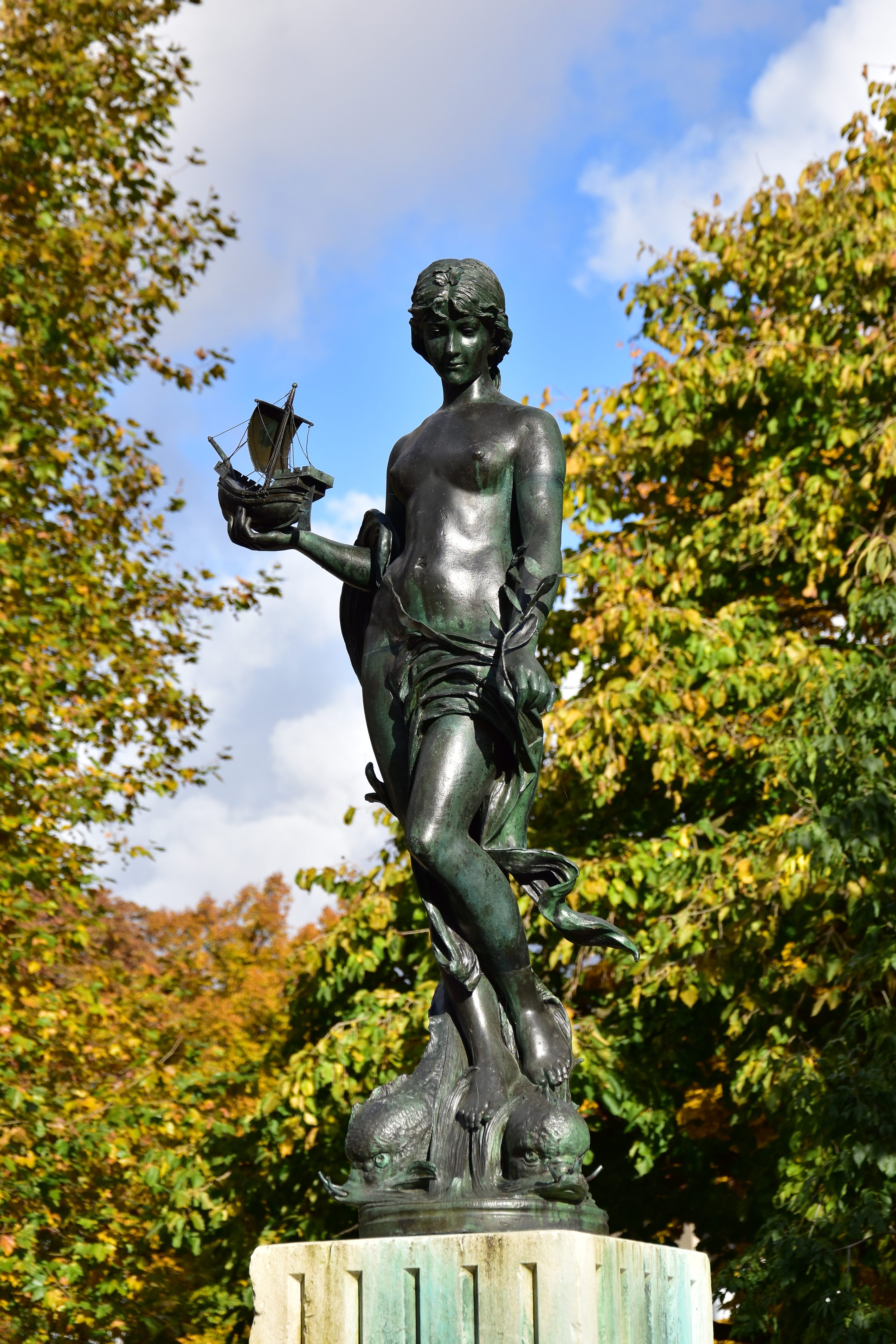 The Behn-Brunnen (Behn fountain, named after 19th century mayor of Altona, Carl Heinrich Caspar Behn) in Hamburg-Altona at the corner of Behnstraße and Königstraße. It shows an Oceanid holding a small ship (a cog) in her right hand, and some branch in the left. (The branch was only restored in 2015, and an Internet source speaks of an olive branch, but it looks more like a laurel branch to me.) The fish at the bottom are capable of shooting out water, but the fountain was dry when this picture was taken. (The same source speaks of “dolphins” but again I must call into question its powers of observation.) The sculptor was Wilhelm Giesecke.